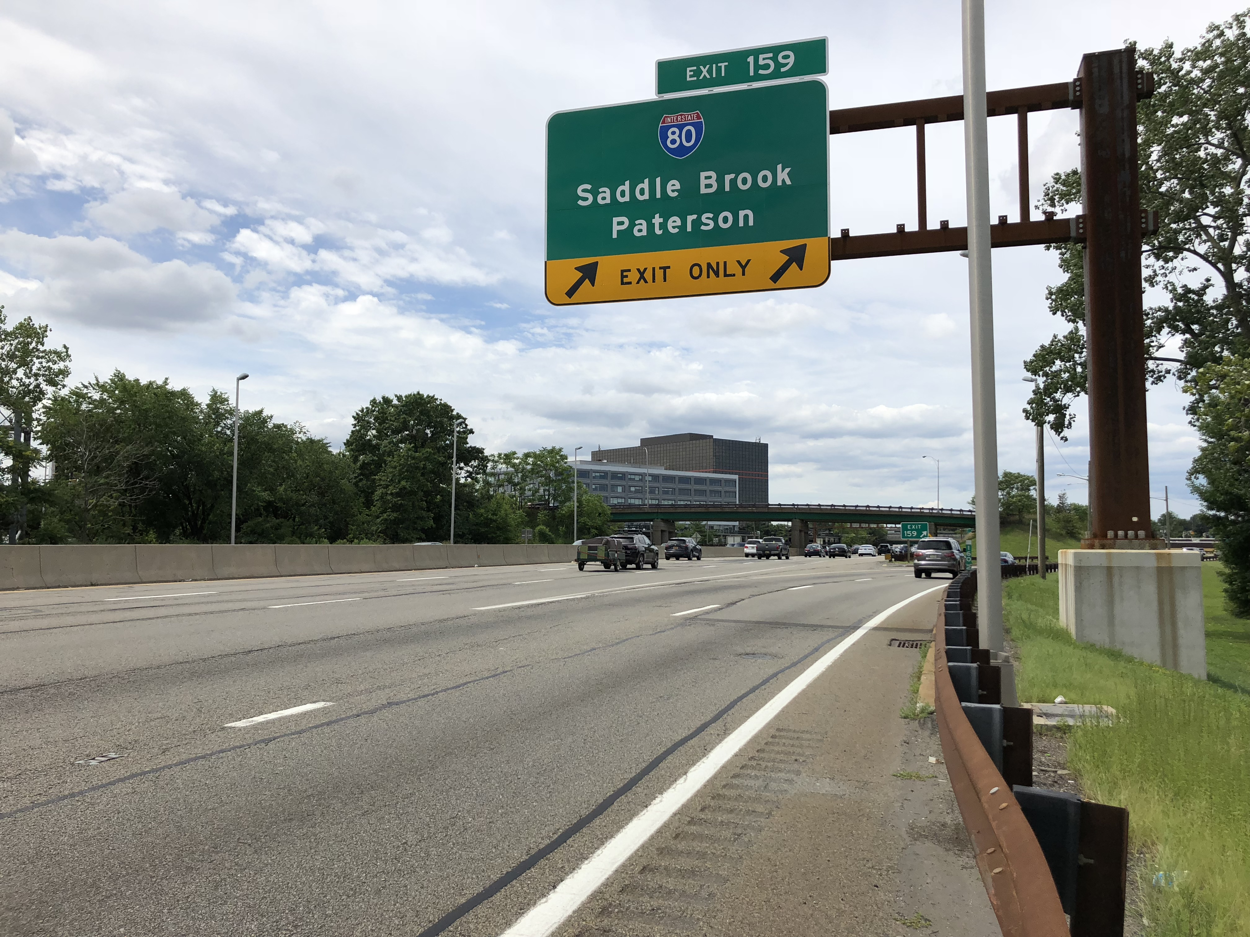 View south along New Jersey State Route 444 (Garden State Parkway) at Exit 159 (Interstate 80, Saddle Brook, Paterson) in Saddle Brook Township, Bergen County, New Jersey